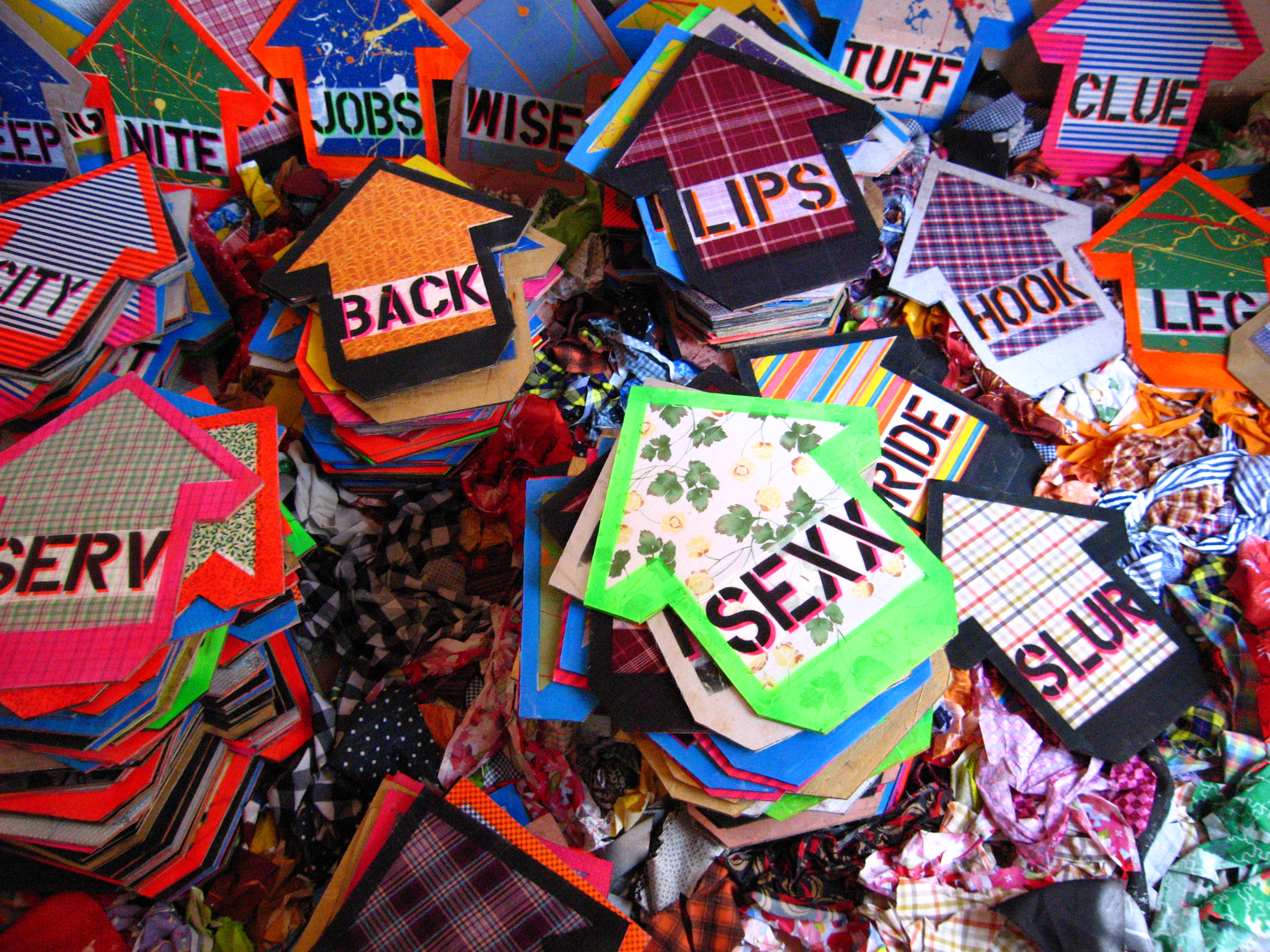 a large stack of wooden arrow mobiles.